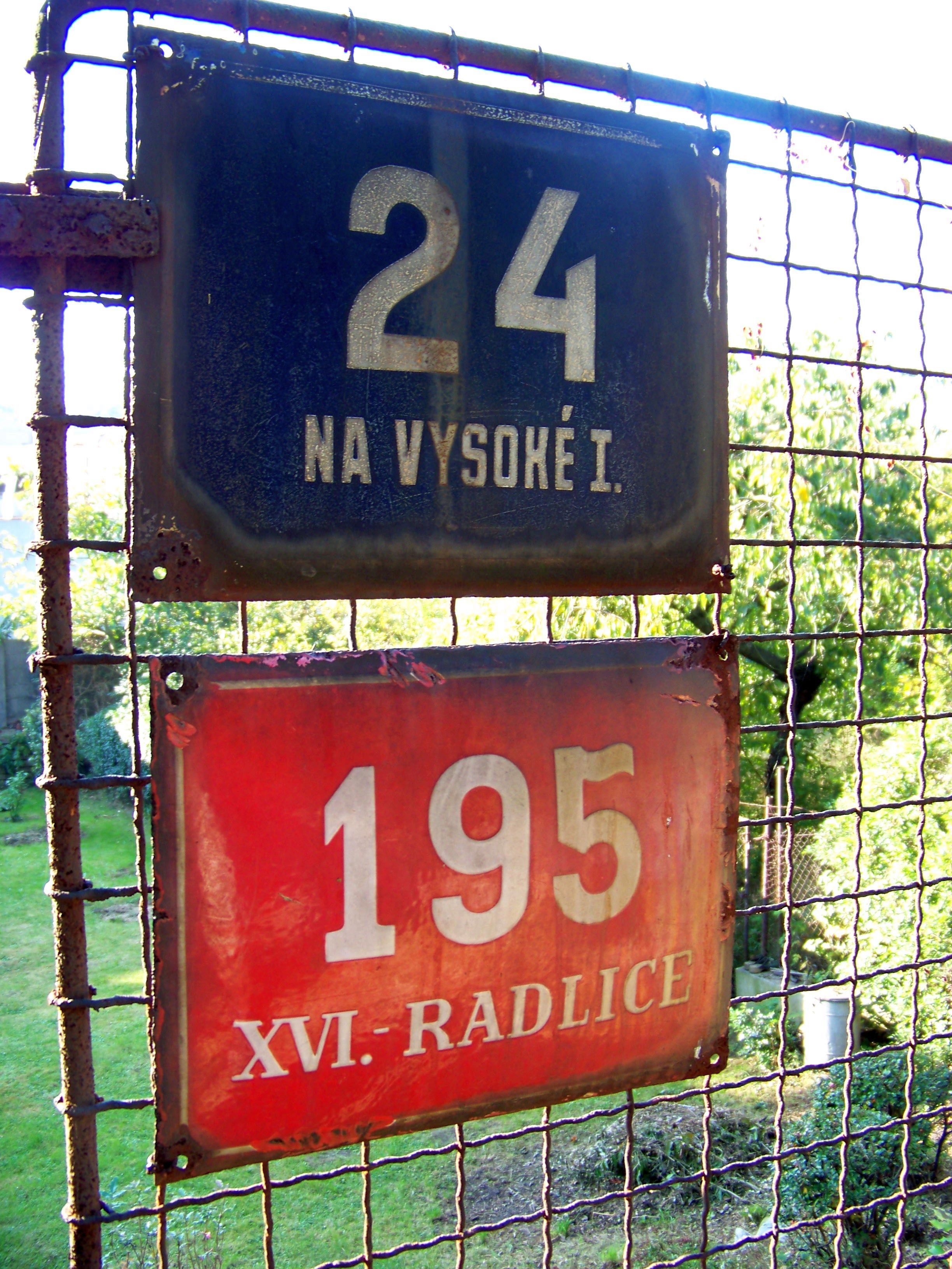 Prague-Radlice, the Czech Republic. Na vysoké I 195/24, house numbers.